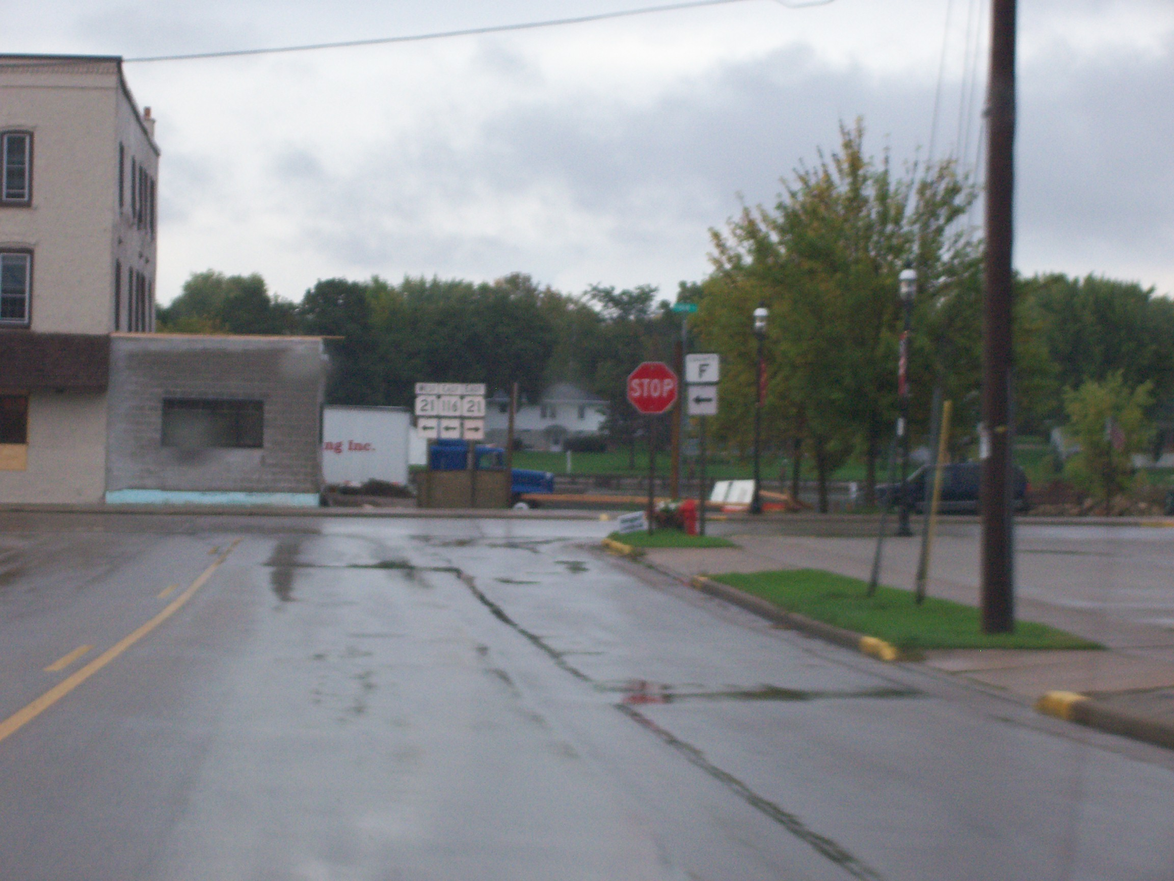 Highway 116 (Wisconsin) at its junction with Highway 21 (Wisconsin) in Omro, Wisconsin. The Fox River (Wisconsin) is between the building in the foreground and the white house in the background. This image was taken on September 23, 2006 by User:Royalbroil. Category:Images of Wisconsin highways